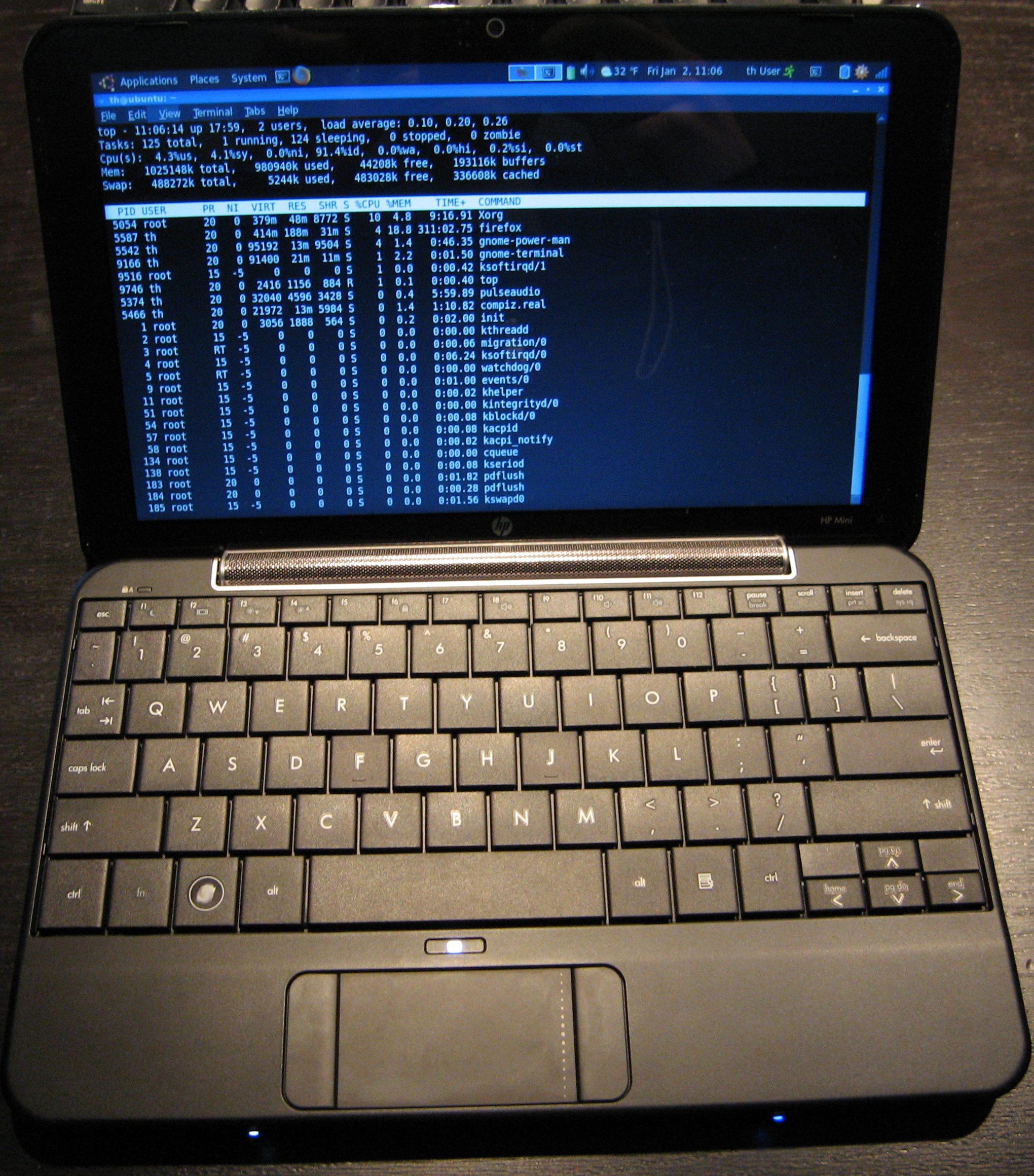 The first thing I did was install Ubuntu 8.10. Ubuntu works flawlessly on the Mini 1000 without any special tweaks or proprietary drivers (though Ubuntu offers them). HP Mini 1000 Genuine Windows XP Home with Service Pack 3 Ubuntu 8.10 Intel Atom Processor N270 (1.60GHz) 10.2" diagonal WSVGA HP LED Brightview Infinity Display (1024 x 600) FREE Upgrade to 1GB DDR2 System Memory (1 DIMM)!! - For Integrated WWAN products Intel Graphics Media Accelerator 950 16GB (Solid State Drive Flash Module) HP Mini Webcam with HP Imprint Finish (Swirl) - For 10.2" Display HP Color Matching Keyboard Wireless-G Card 3 Cell Lithium Polymer Battery